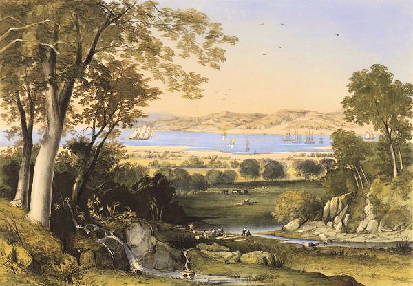 A view of Koombana Bay on Port Leschenault, Australind, Western Australia, lithograph, hand coloured, 47.3 x 63.7 cm, by Thomas Colman Dibdin